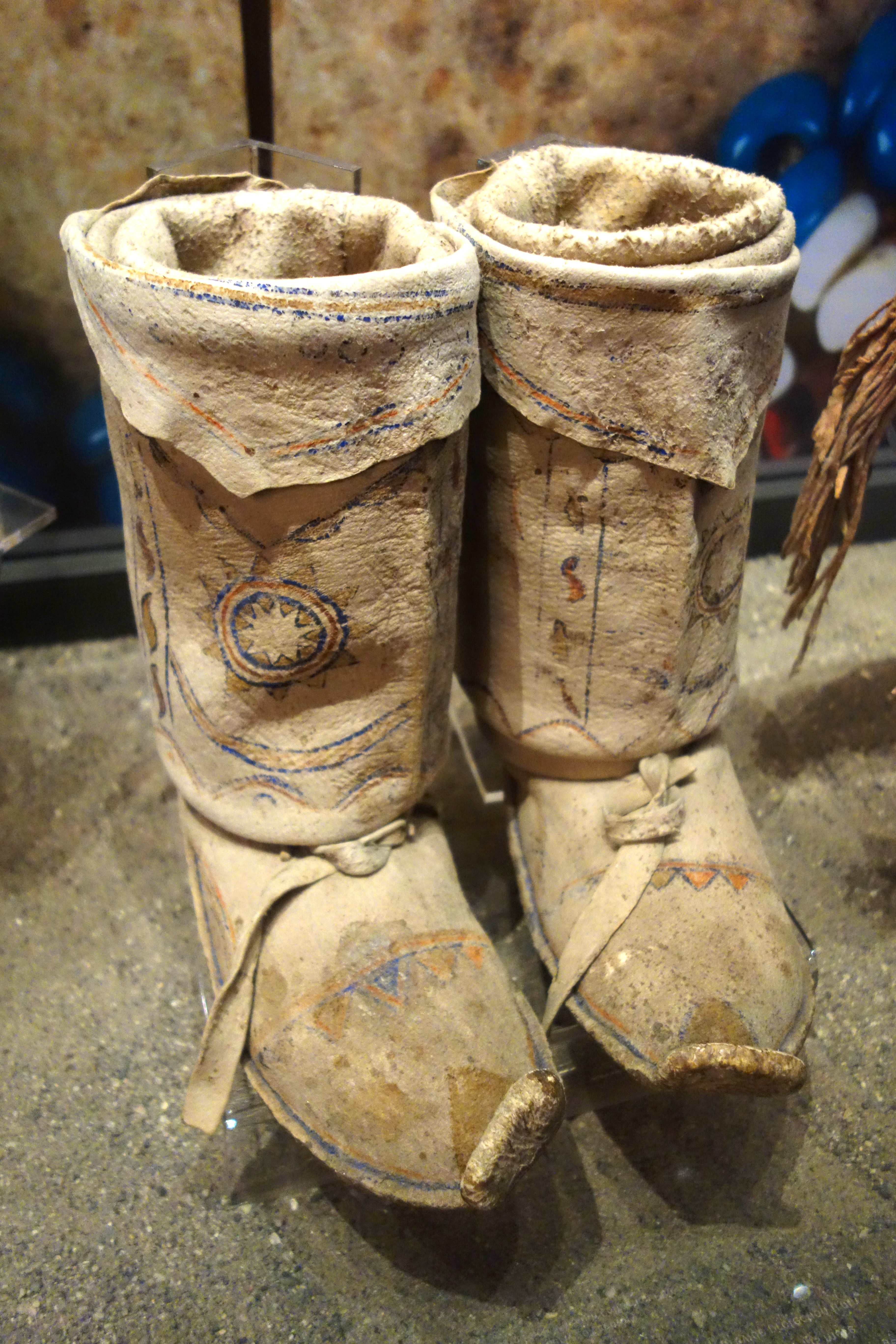 Exhibit in the Bata Shoe Museum, Toronto, Ontario, Canada. This item is old enough so that its design is in the public domain. The museum permitted photography without restriction.